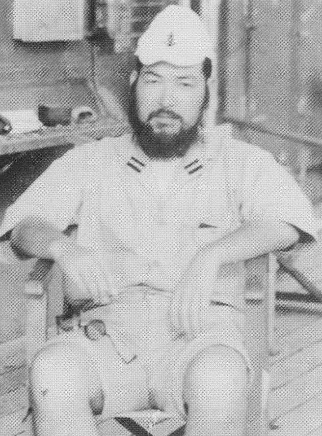 Imperial Japanese Navy Lieutenant Tamotsu Ema, commander of aircraft carrier Zuikaku's dive bomber squadron, rests aboard the carrier in April 1942, shortly before participating in the Battle of the Coral Sea. In the battle, the dive bombers under Ema's command helped sink the US Navy destroyer Sims, fleet oiler Neosho, and damage the aircraft carrier Yorktown.